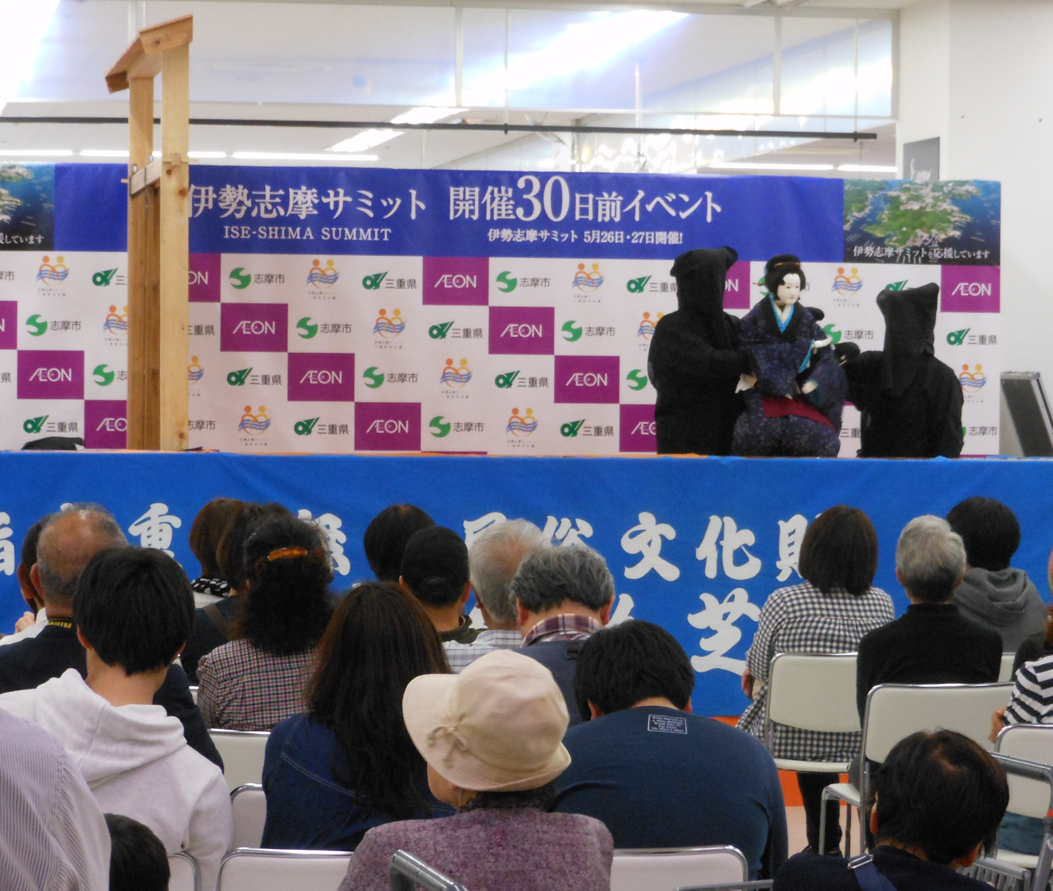 This is a performance of "Anori no Ningyo Shibai" or Doll Play of Anori in AEON Ago Shop, Shima, Mie, Japan.